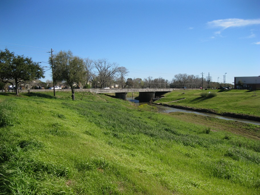 Photo shows the Farm to Market Road 1092 bridge over Oyster Creek in Missouri City, Texas. View is southeast. Quail Valley Middle School is just outside the photo to the left.